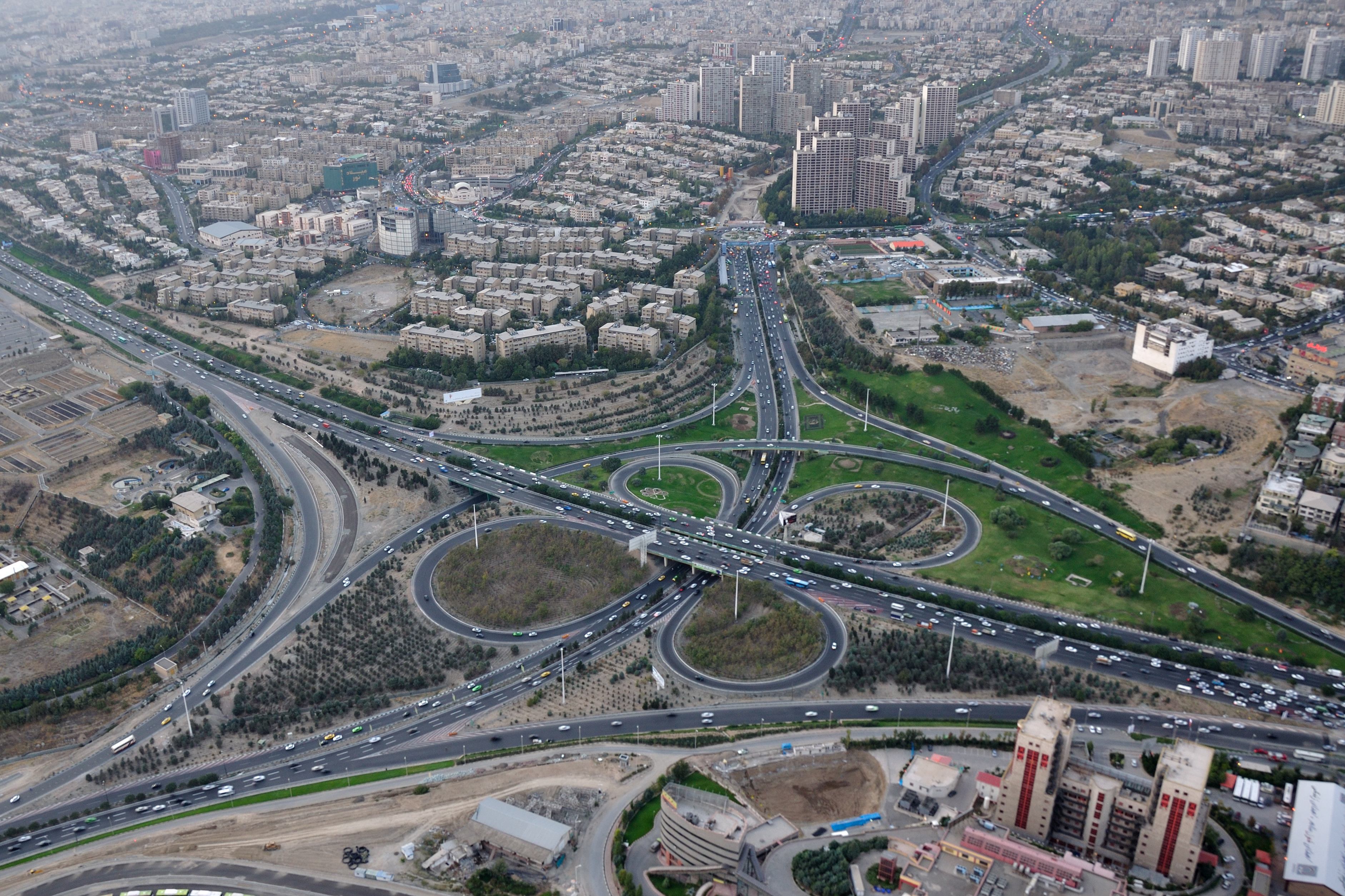 Iran, a visit to Milad Tower in Tehran